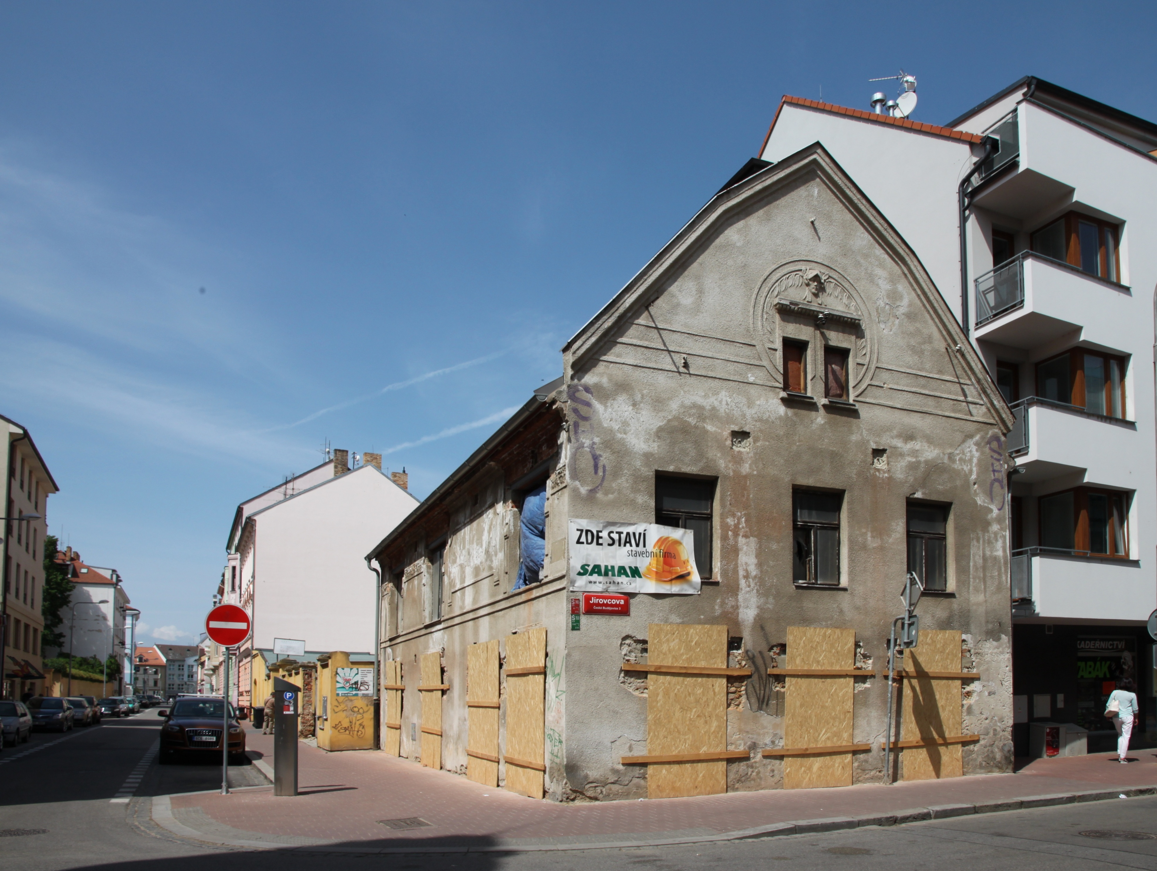 House No. 1791/25, Riegrova Street, České Budějovice, Czechia